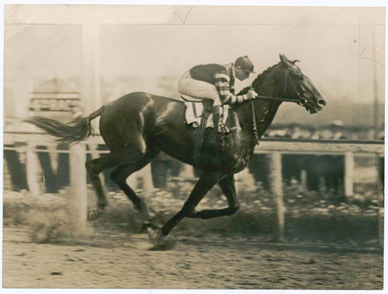 Man o' War in 1920, from the New York Public Library digital collection, Annals of American Sport. Note: Man o' War (1917–1947) was an American Thoroughbred who is widely considered one of the greatest racehorses of all time.